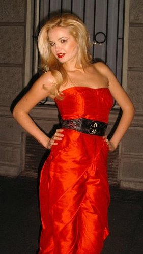 serbian miss anja